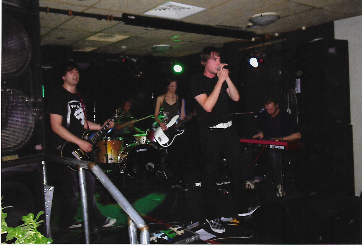 The Paris Crash playing at The Albion Hotel, Sydney Australia in 2005